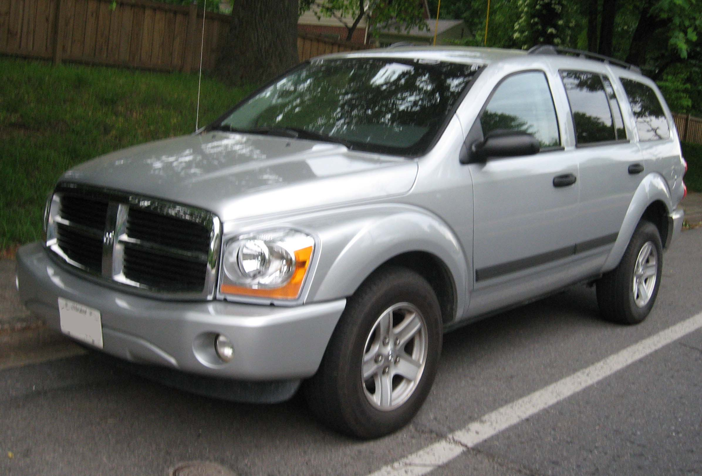 2004-2006 Dodge Durango photographed in USA.